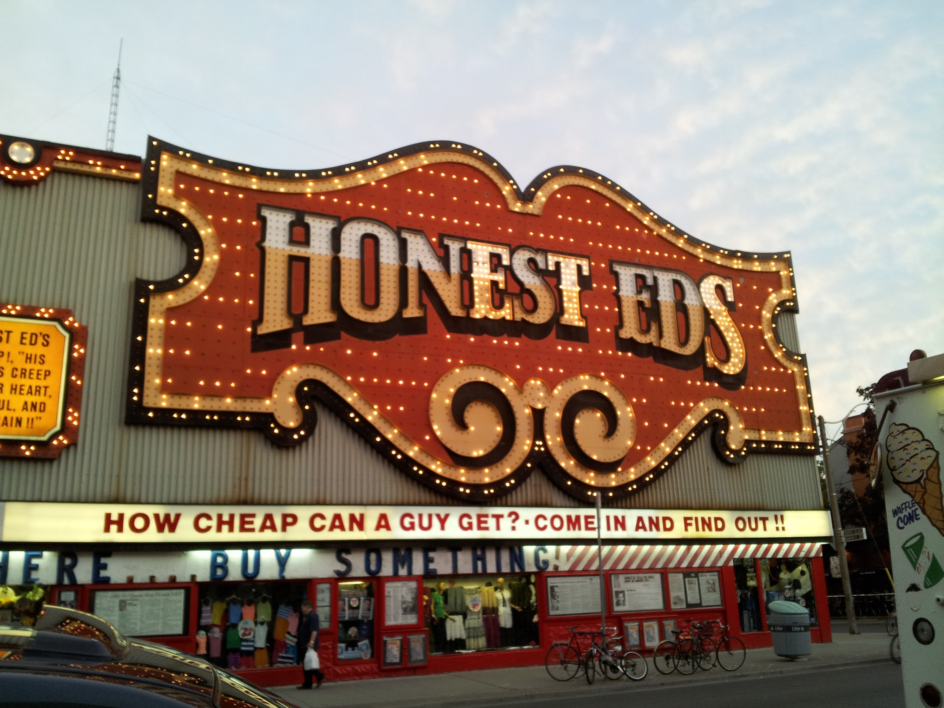 Exterior view of Bloor and Markham corner of Honest Ed's.